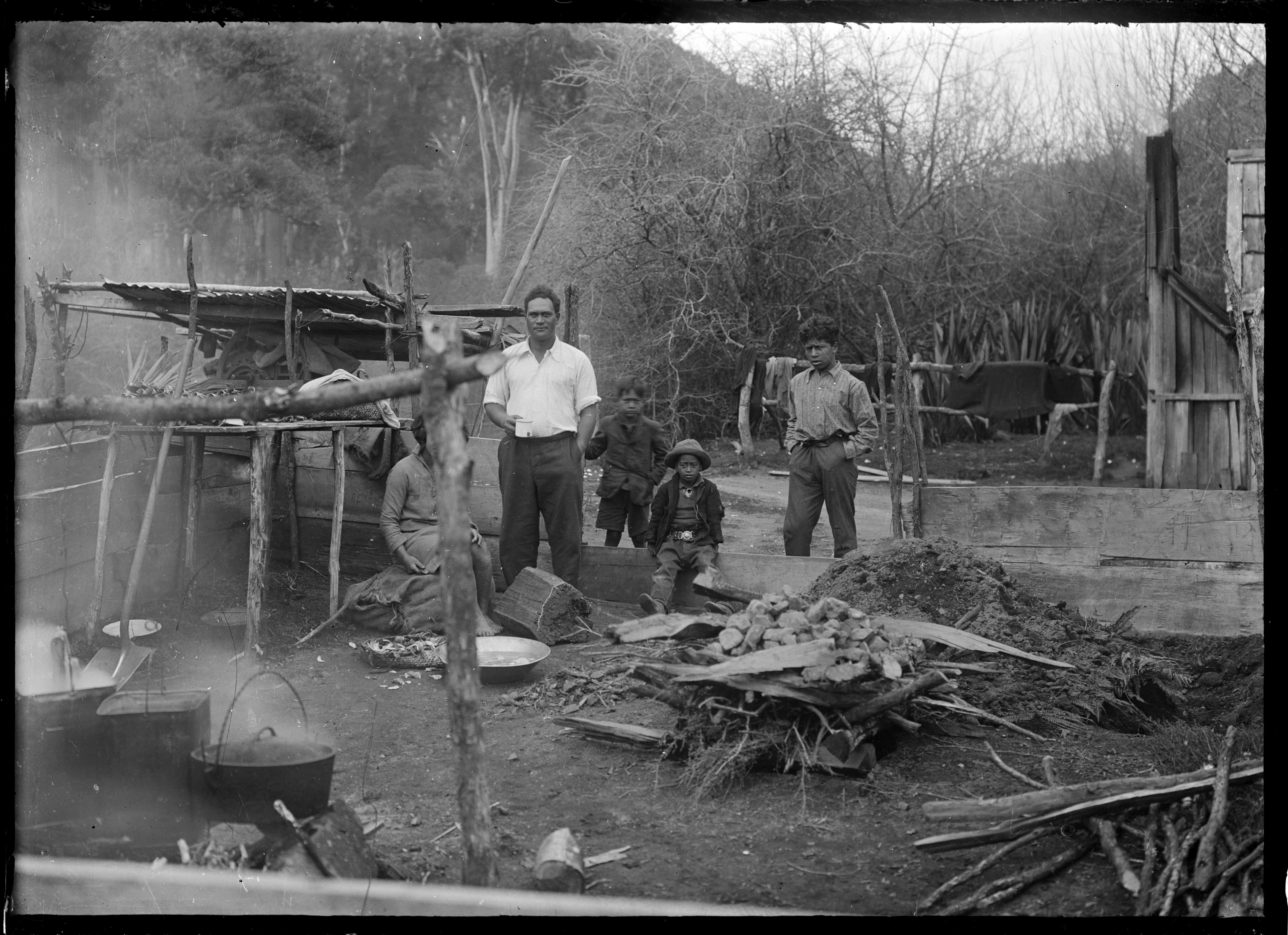 A group of men around a hangi at Te Whaiti. Photograph taken by Albert Percy Godber in October 1930.